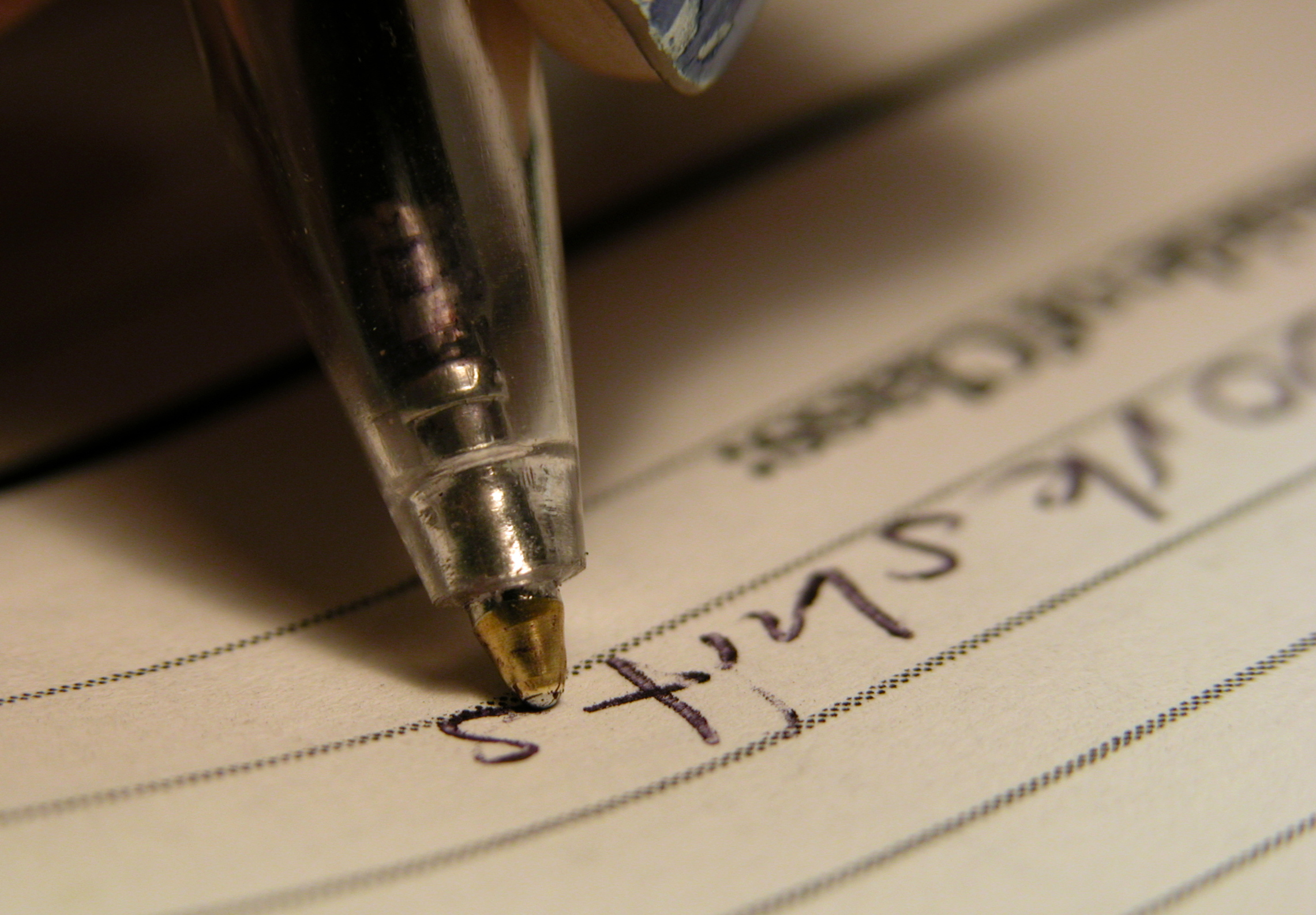 A ball point pen in use, though apparently to write the English curse word "shits".